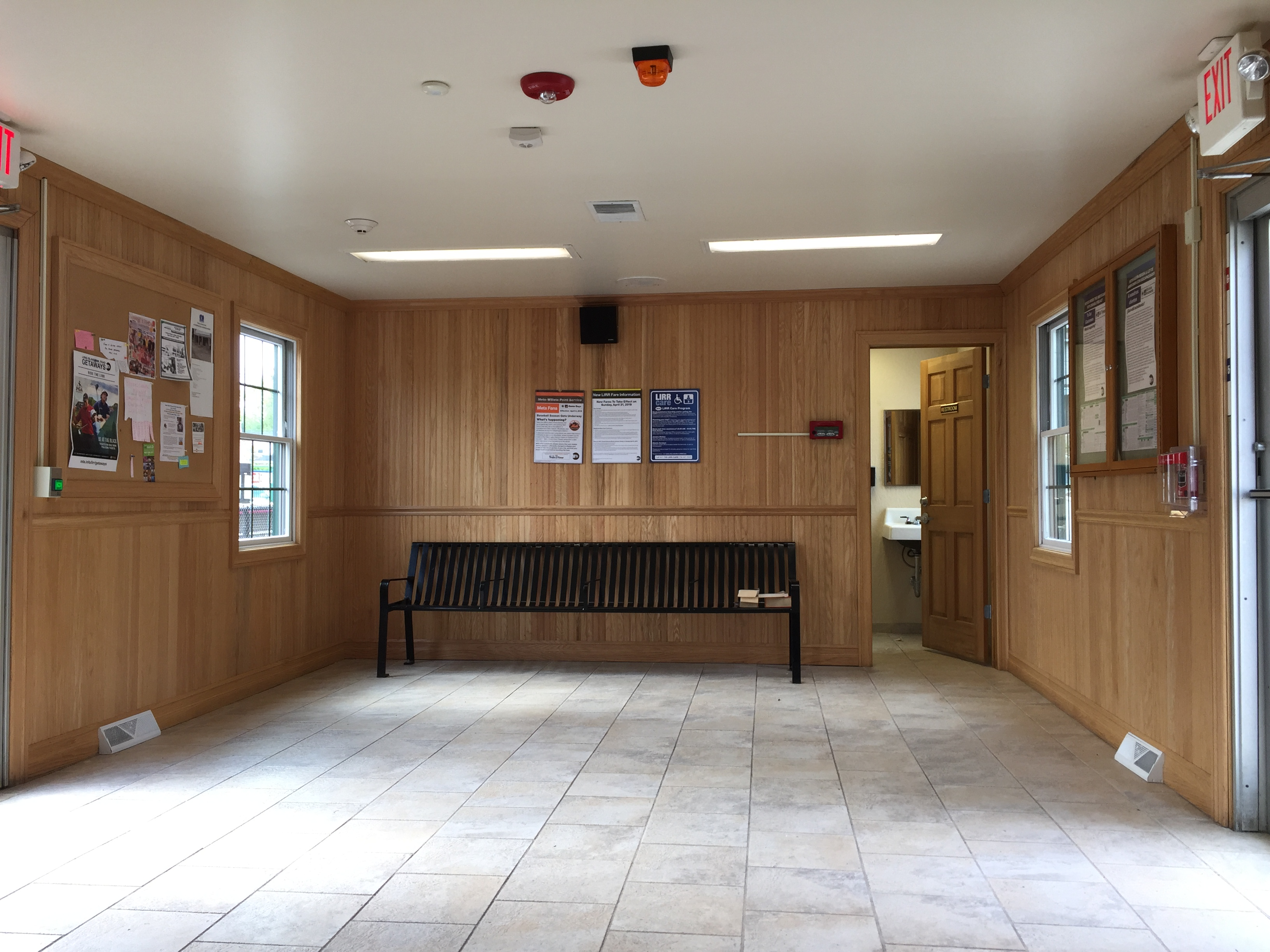 Interior of the Glen Head LIRR station in 2019